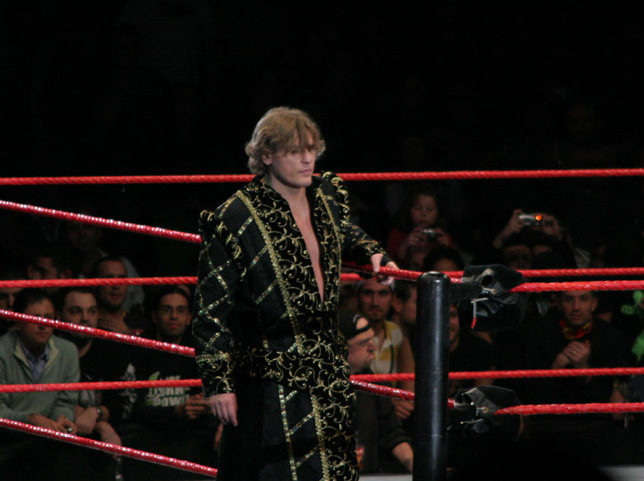 William Regal making his entrance in Milan,Italy